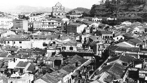 Panoramic view of Ruins of St. Paul's Cathedral circa 1930